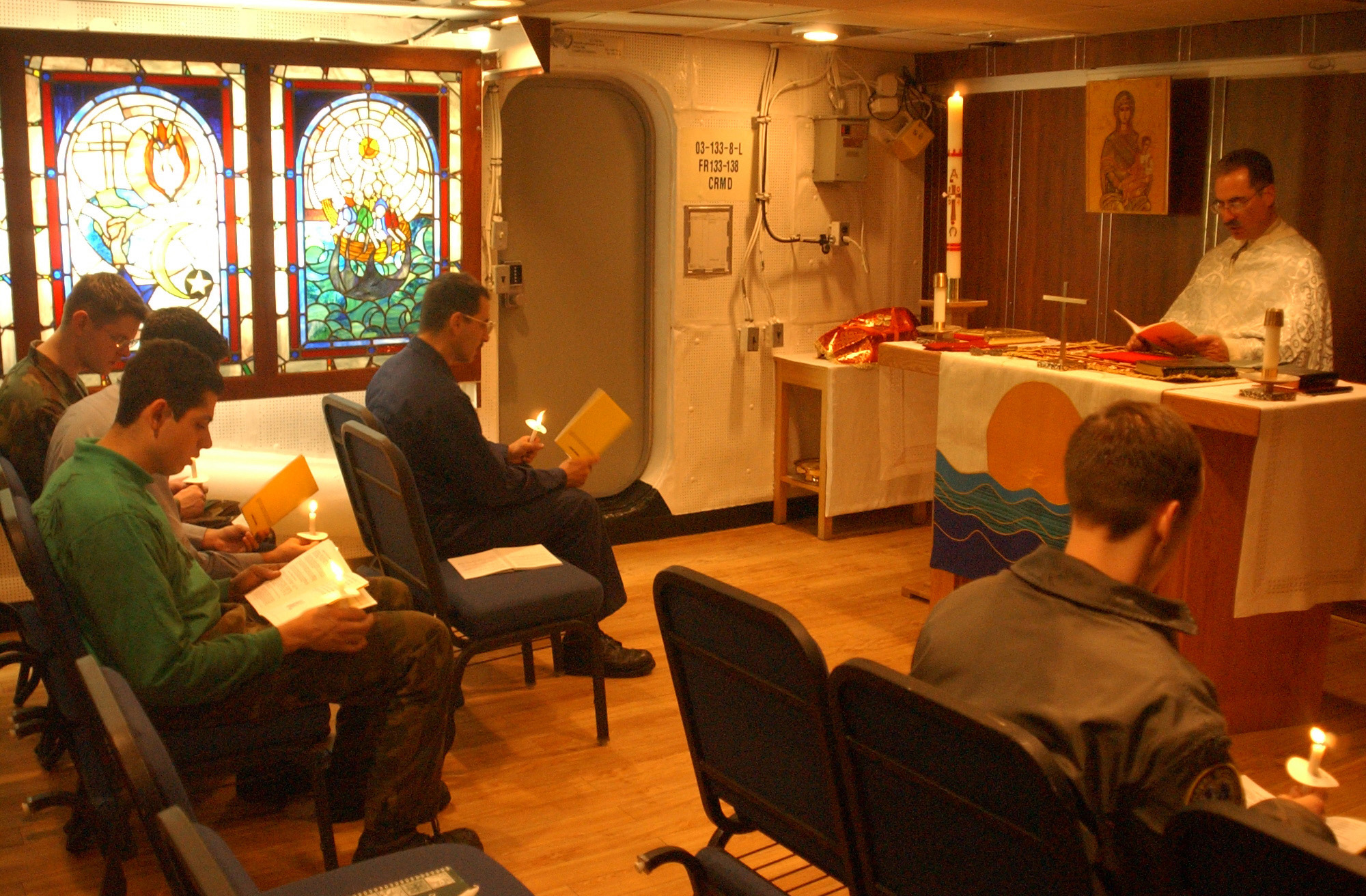 Atlantic Coast (Apr. 11, 2004) - Navy Chaplain Milton Gianulis conducts an Easter morning Orthodox Liturgy candlelight service aboard USS Harry S. Truman (CVN 75). The nuclear powered aircraft carrier is currently undergoing a Tailored Ship's Training Availability (TSTA) off the Atlantic coast. U.S. Navy photo by Photographer's Mate 3rd Class Carl E. Gibson. (RELEASED)